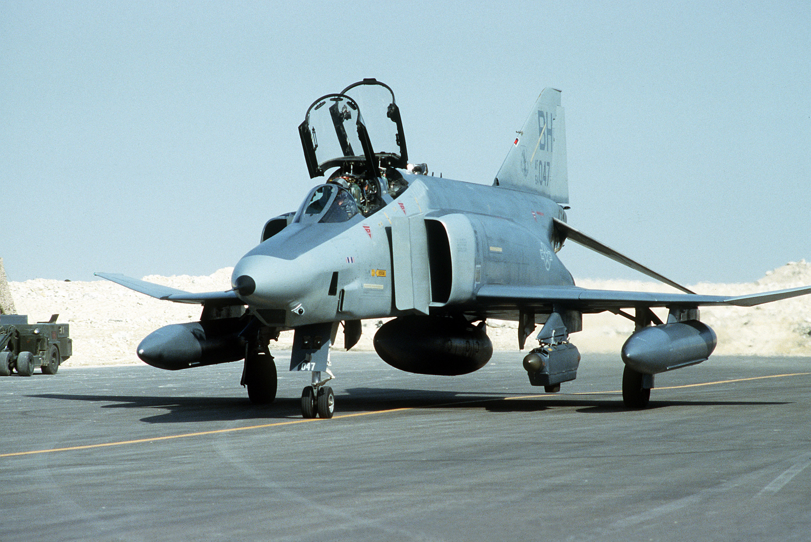 A RF-4C Phantom II from the 117th Tactical Reconnaissance Wing sits on an airfield on the first day of Operation Desert Storm